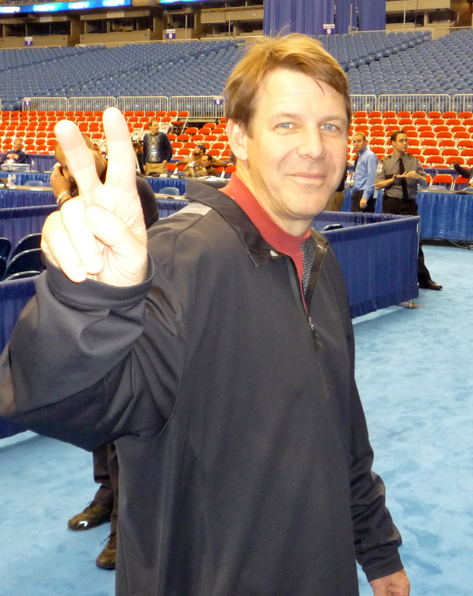 USC Trojans basketball head coach Tim Floyd after a practice at the Metrodome in Minneapolis, Minnesota before round one of the 2009 NCAA Tournament. he is giving USC's traditional "V-for-victory" sign.